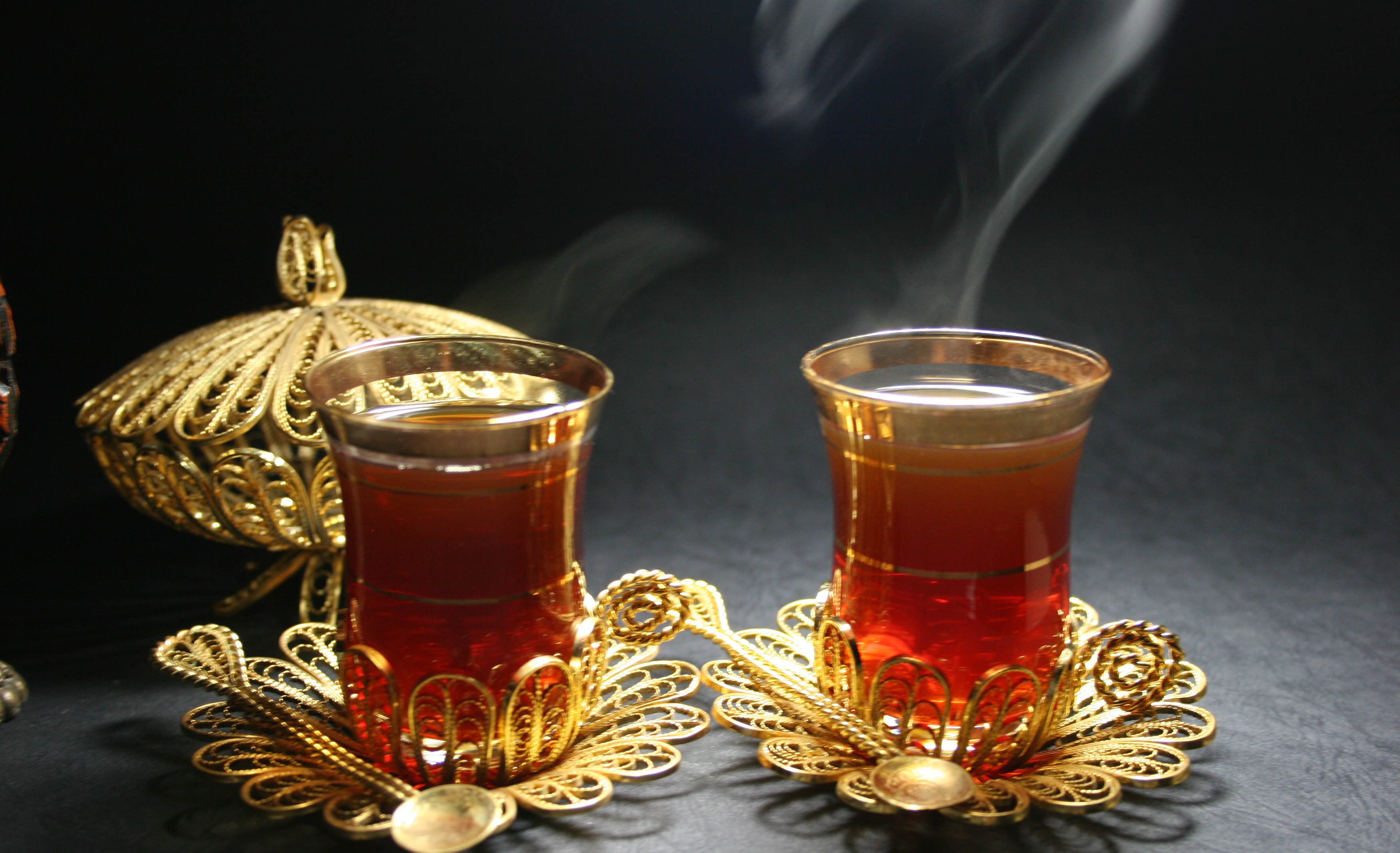 Arabic tea